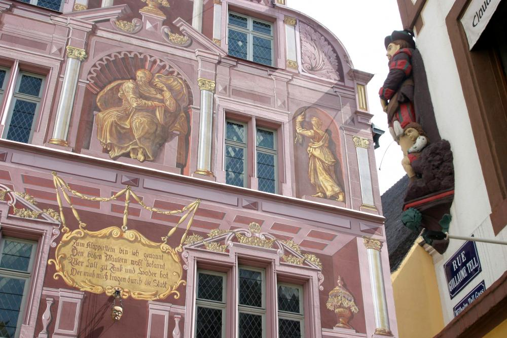 Town hall in Mulhouse (France)